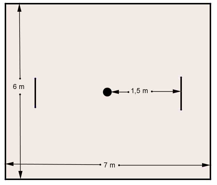 The Court of "Shinai-Kyogi"